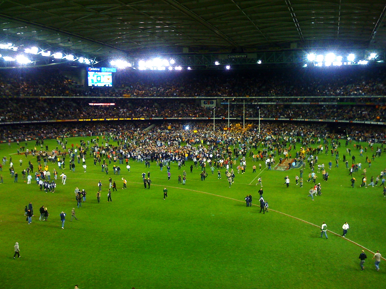 Thousands of fans rush the ground after Buddy Franklin kicks his 100th goal for the season. Thanks to AITSS for the ticket